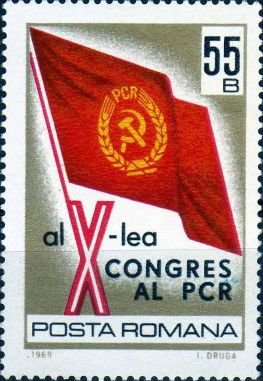 The tenth PCR congress